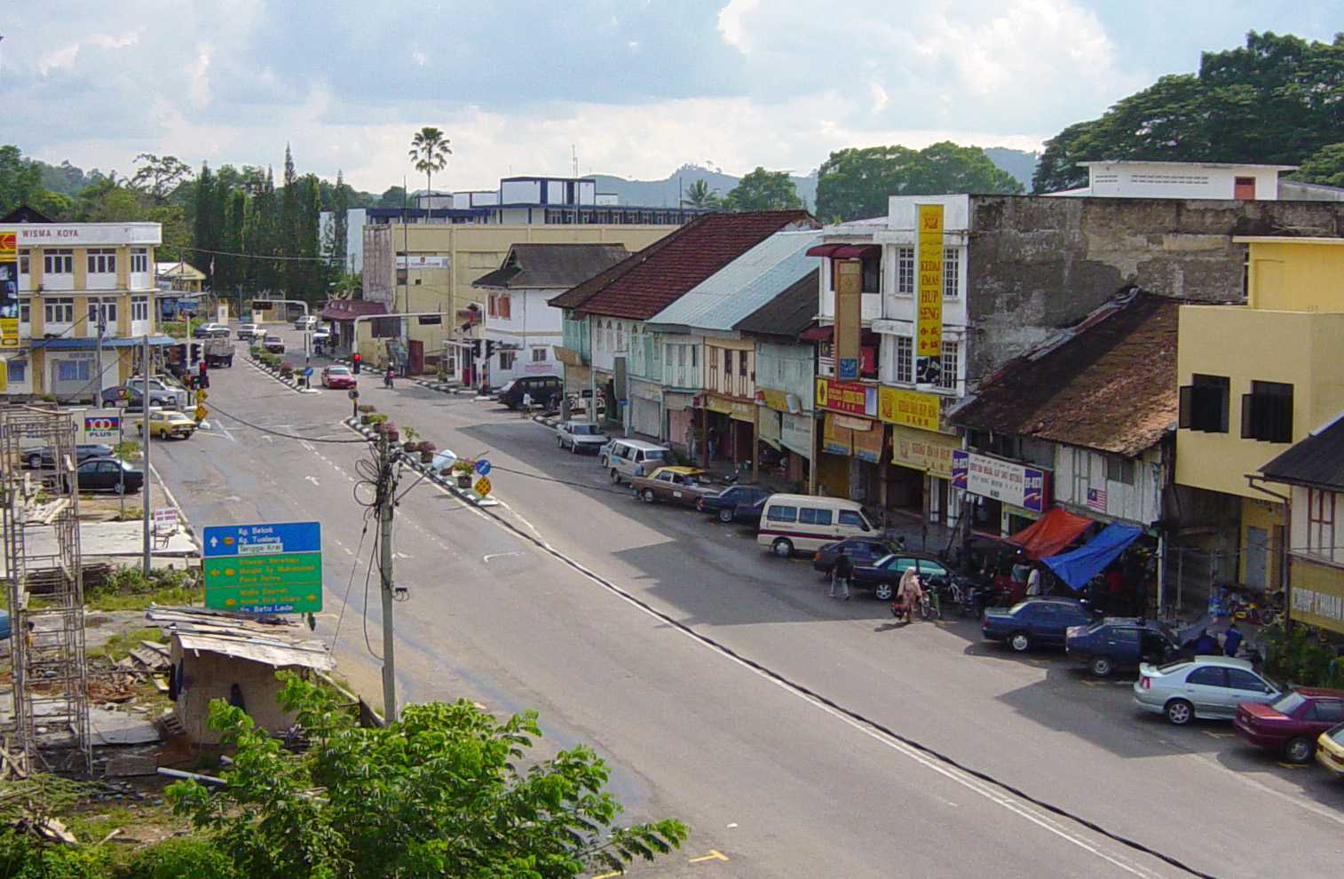 Photograph taken by me in 2005. Shows the main street in Kuala Krai looking towards the Krai Steps down to the bank of the Kelantan River